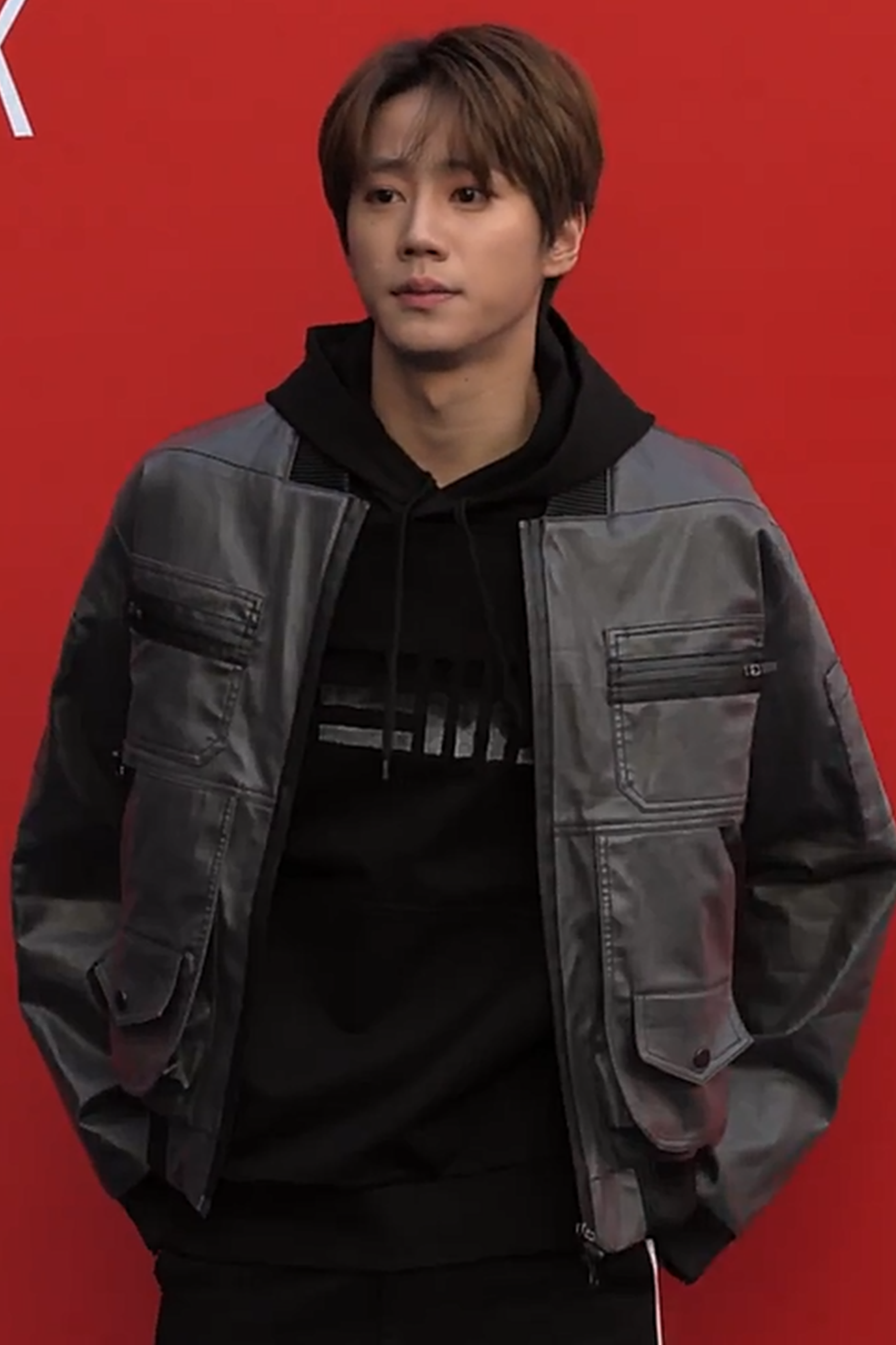 Jun during the 2019 S/S Hera Seoul Fashion Week on October 19, 2018.